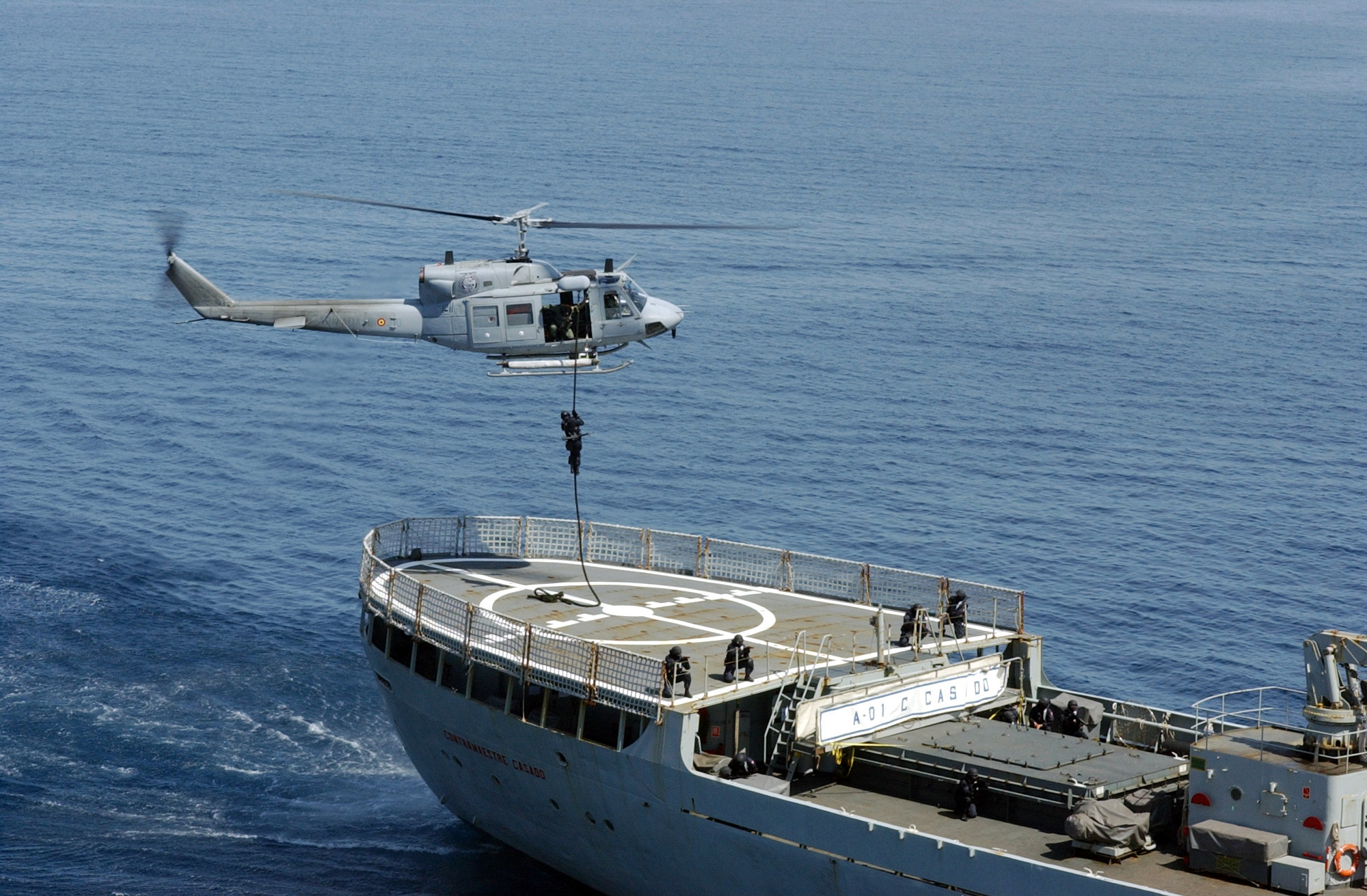 070419-N-8493H-030 ATLANTIC OCEAN (April 19, 2007) - Spanish AB-212 helicopter fast ropes Tunisian Sailors down to Spanish ship SPS Contramaestre Casado (A01) to conduct Maritime Interdiction Operations (MIO) as part of Phoenix Express 2007. The two-week long exercise is focused on developing increased maritime domain awareness, better information sharing practices, and the ability to operate jointly. The exercise includes Algeria, France, Greece, Italy, Malta, Morocco, Portugal, Spain, Tunisia, Turkey and the United States.